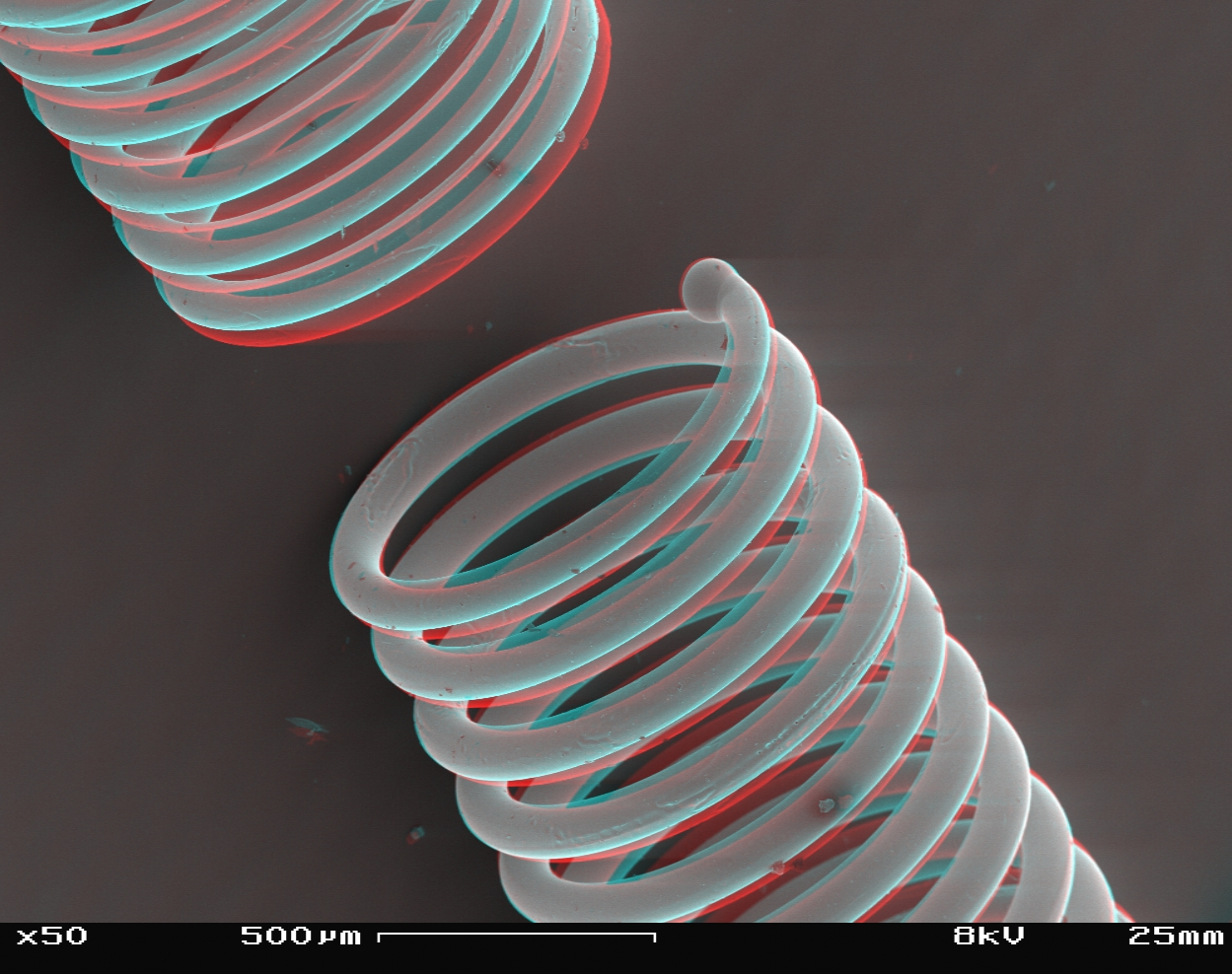 This is a stereoscopic SEM (scanning electron microscope) view of a fused electrical filament made of tungsten. Magnification 50x (relative to medium format film).